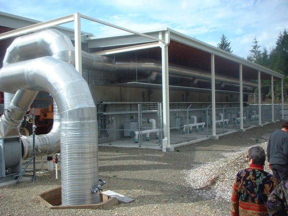 Municipal biosolids composting facility, air circulation system